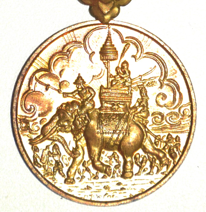 Border Service Medal (Thailand) in Wat Kungtapao Local Museum. at Wat Khung Taphao, Ban Khung Taphao, Khung Taphao subdistrict, Mueang Uttaradit, Uttaradit Province, Thailand.